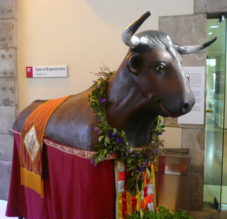 Bou de Sant Just of Barcelona